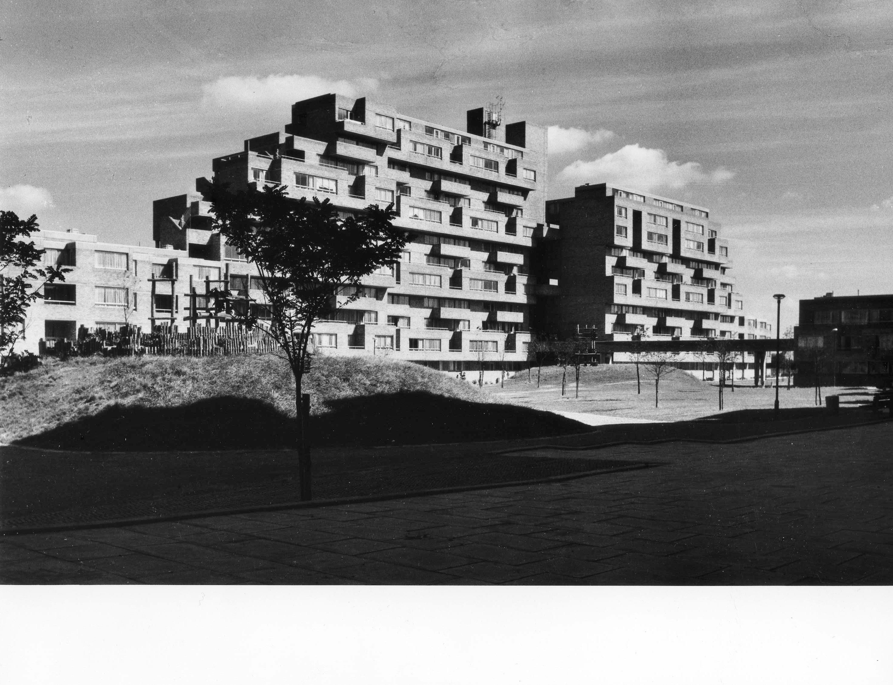 Dawsons Heights, 1973, looking North from the central space, photographer, Robert Kirkman FSAI.